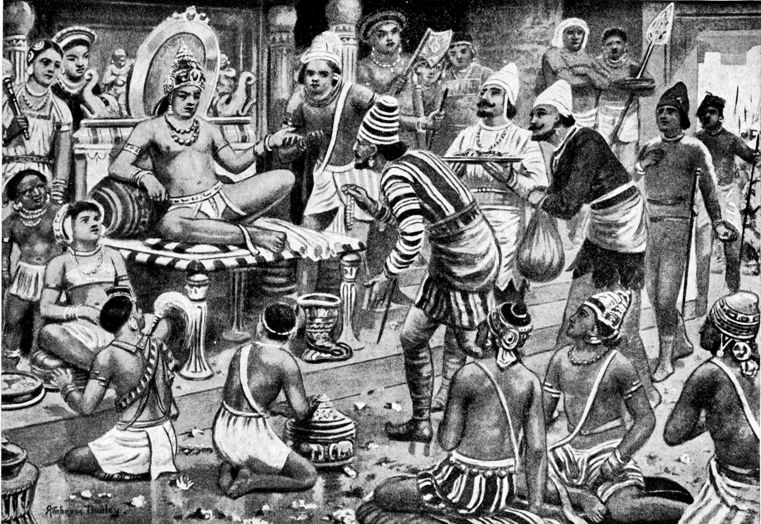 Pulikesin II, the Chalukhaya, receives envoys from Persia,. From Credit: Pulikesin II, the Chalukhaya, receives envoys from Persia, illustration from 'Hutchinsons History of the Nations', c.1910 (litho), Dudley, Ambrose (fl. 1920s) / Private Collection / The Stapleton Collection / The Bridgeman Art Library STC 357949 Image number: Pulikesin II, the Chalukhaya, receives envoys from Persia, illustration from 'Hutchinsons History of the Nations', c.1910 (litho) Title: Dudley, Ambrose (fl. 1920s) Primary creator: British Nationality: Private Collection Location: The Stapleton Collection Credit: lithograph Medium: The fame of the Chalukhyan king Pulikesin II (609-642) spread so far that Khusru II (Chosroes) of Persia sent ambassadors to him who were received at Badami in 625; The illustration is taken from a coloured frescoe preserved in one of the Ajanta caves; Description: 20th (C20th) Date: Asia Categories: Horizontal